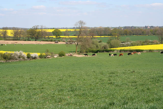 Farmland near Ingoldsby Grange At the corner of Osgodby Coppice the bridleway crosses this field a bridge over a stream in the centre of the photograph. The cows are all heading towards the stream to drink. The north eastern corner of the square is just beyond the second rape field in the band of woodland to the right .